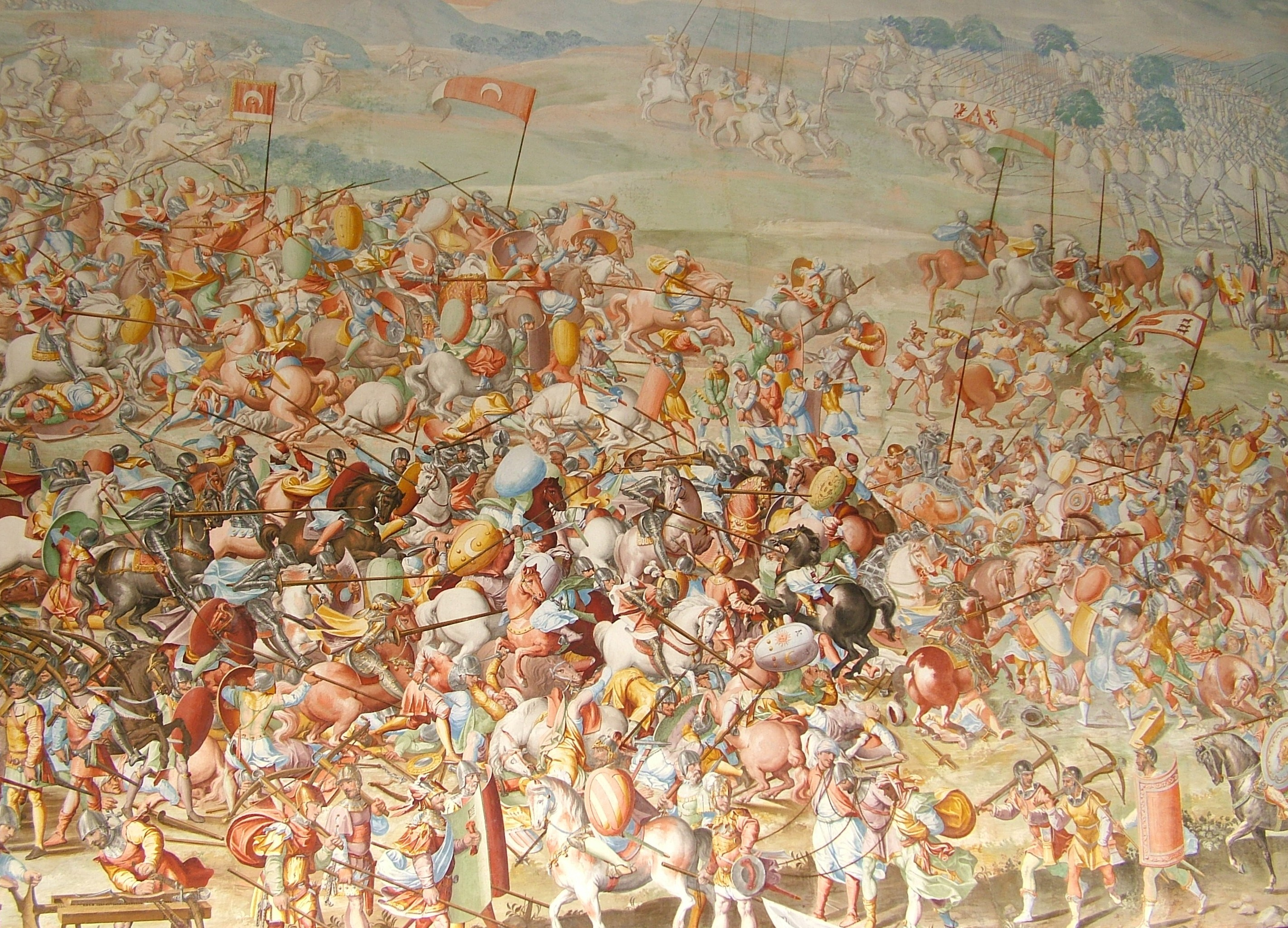 The Battle of Higueruela, 1 July, 1431 depicted by Fabrizio Castello, Orazio Cambiaso and Lazzaro Tavarone in the Gallery of Battles at the Royal Monastery of San Lorenzo de El Escorial.